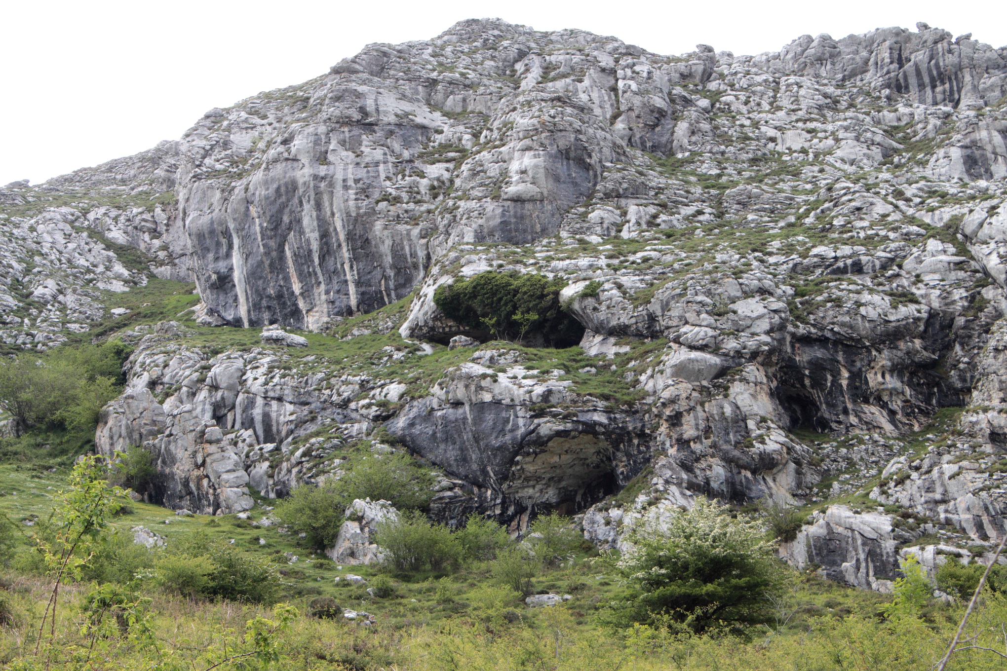 The limestone mountains have been eroded by water creating a karst landscape.